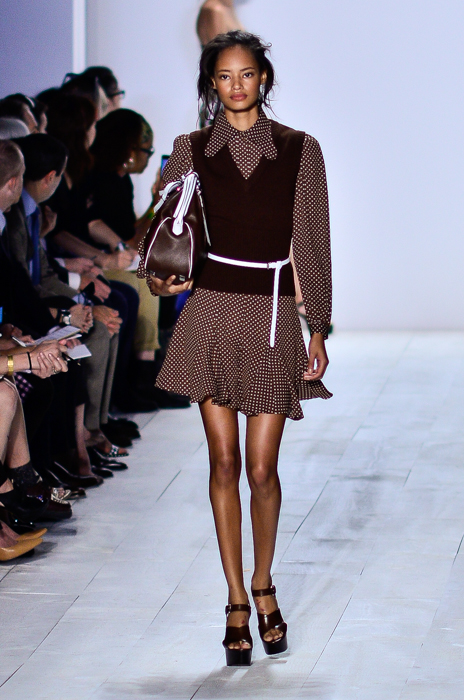 Model Malaika Firthat the Michael Kors Spring/Summer 2014 fashion show on September 11, 2013 at New York Fashion Week. Photo by Christopher Macsurak.